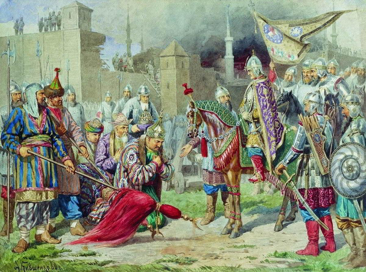 The surrender of Kazan to Ivan the Terrible 1552